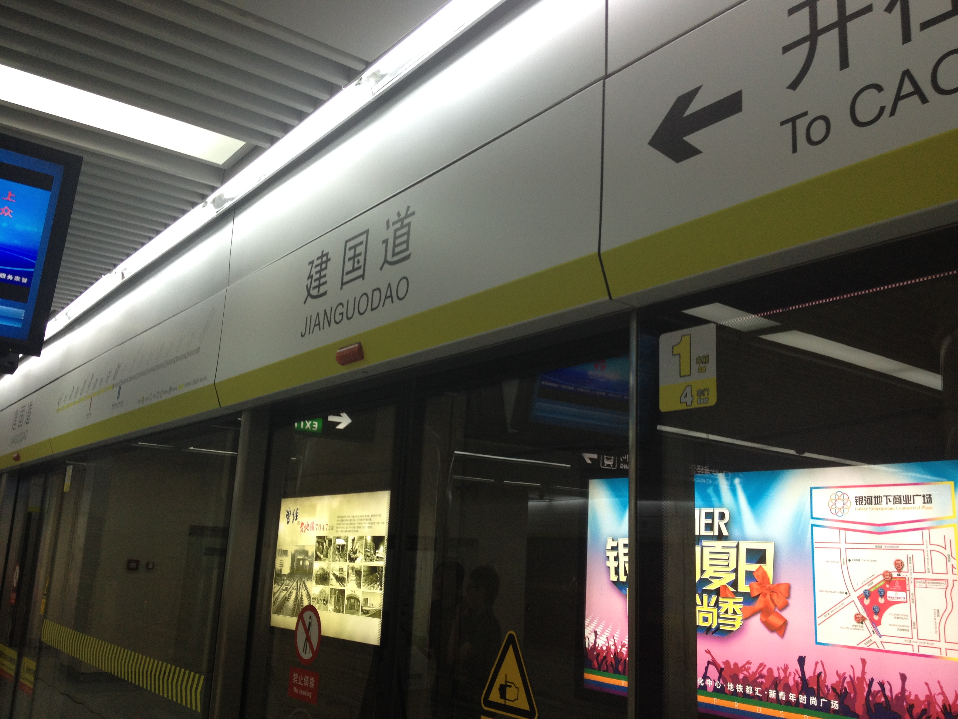 Tianjin Metro JIANGUODAO Station